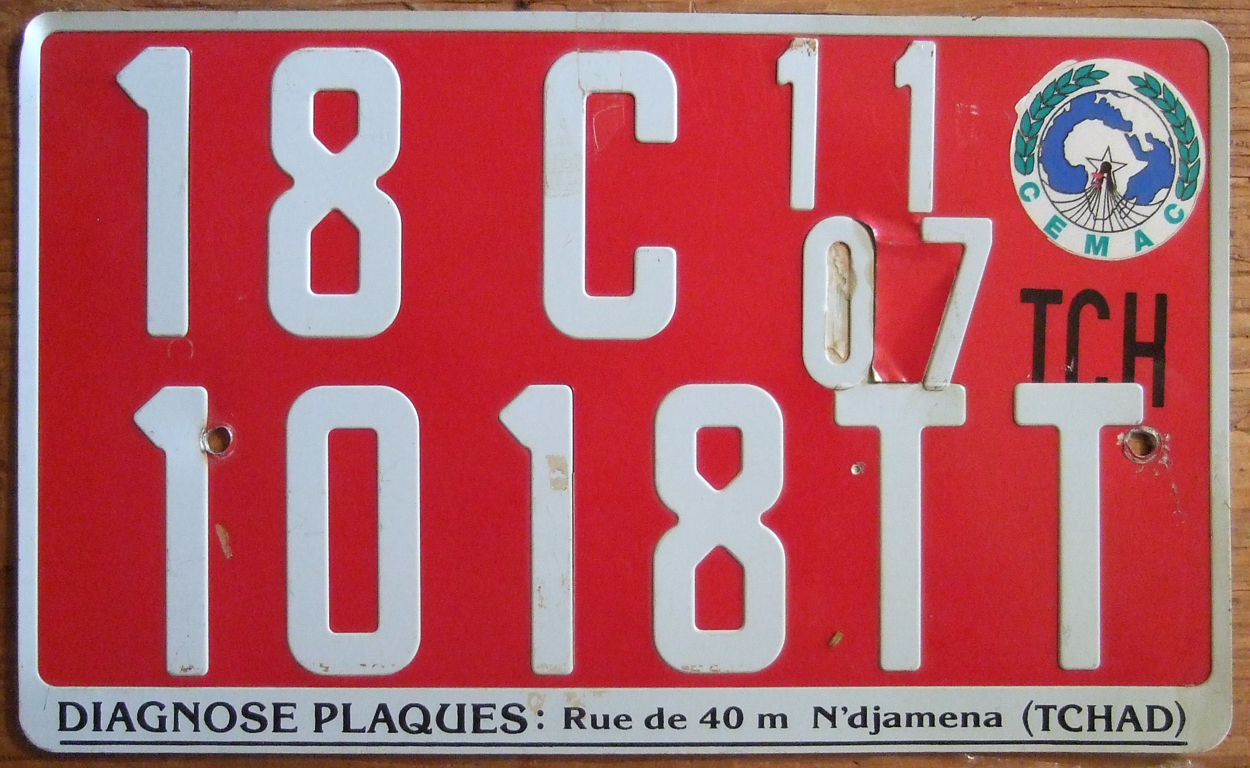 Temporary tourist license plate